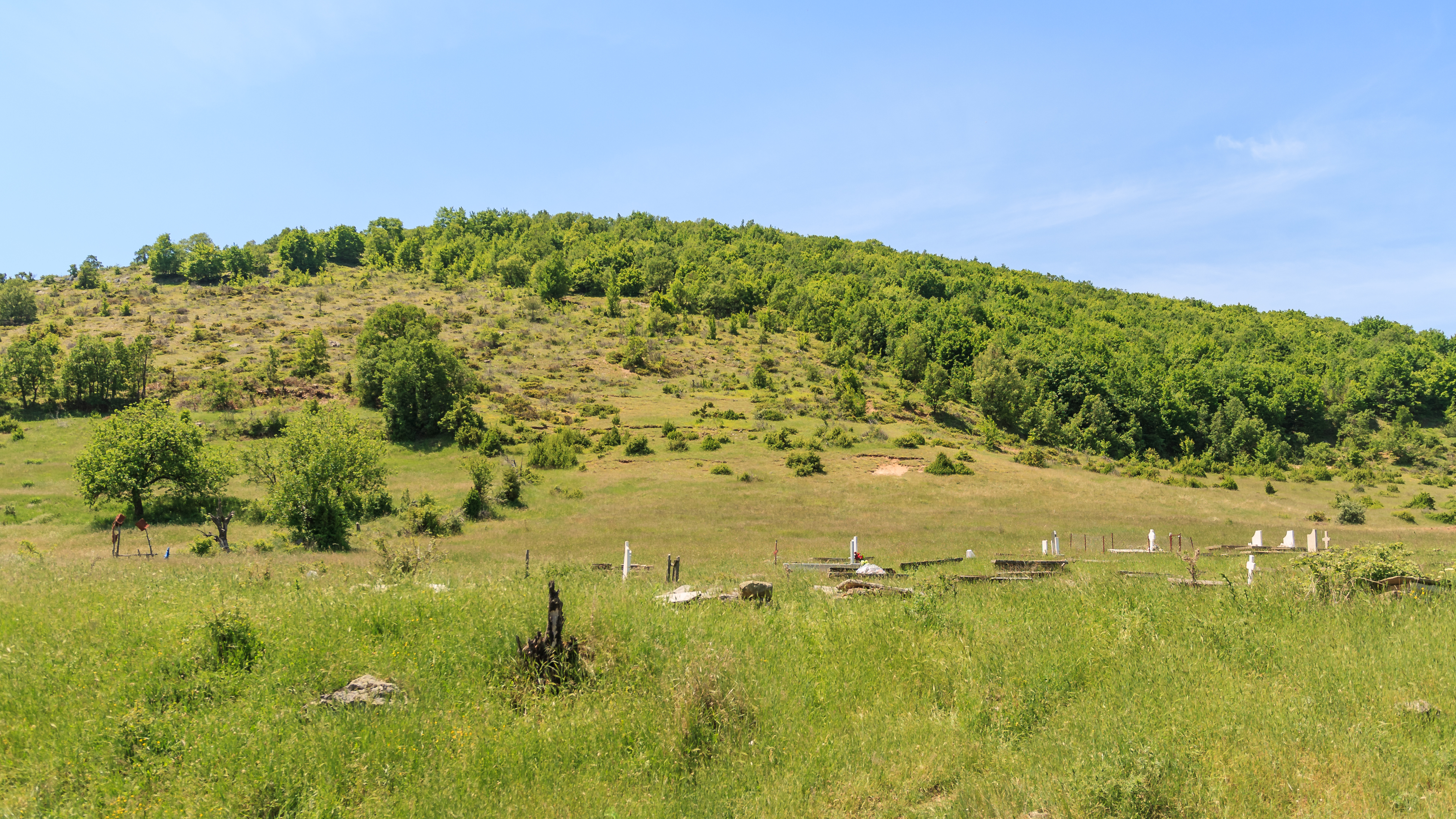 View of the cemetery in the village Polčište, Mariovo